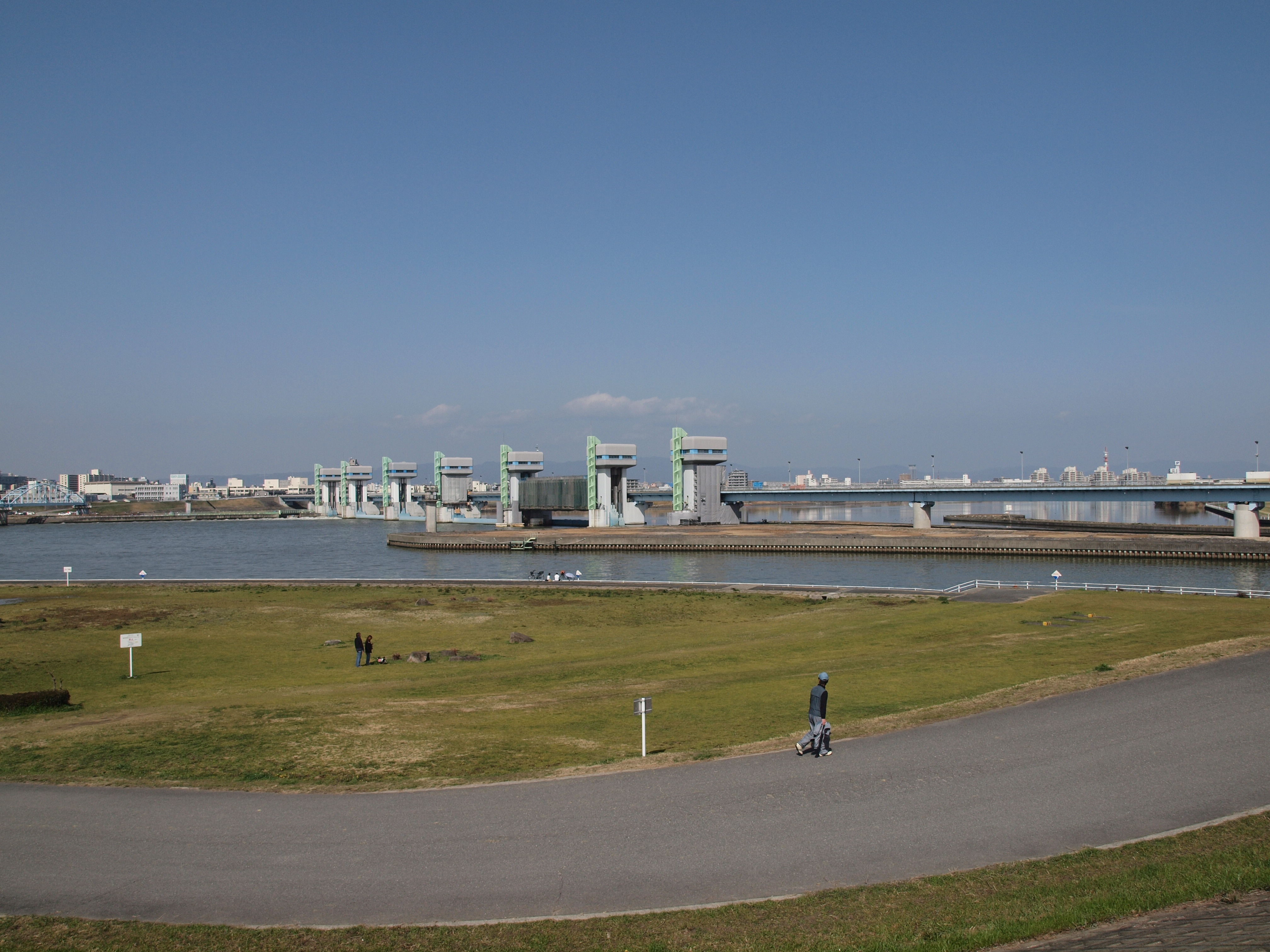 Yodogawa Ozeki (Weirs) in Osaka, Japan